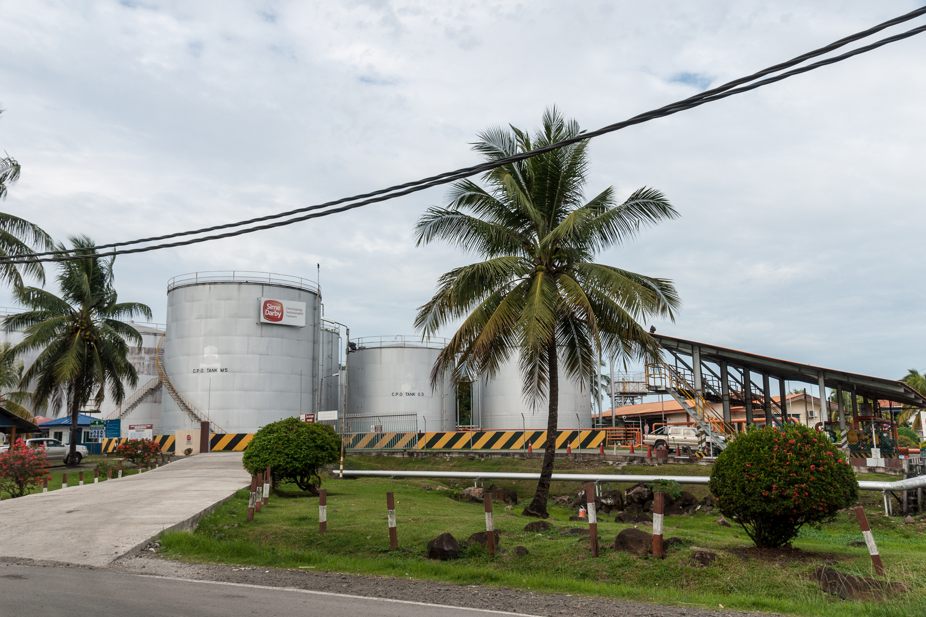 Kunak, Sabah: Crude Palm Oil (CPO) Tanks of SimeDarby